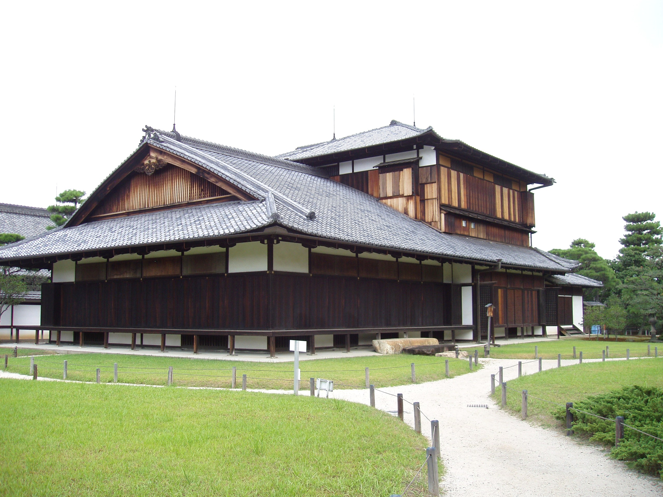 Honmaru Palace, Nijo Castle, Kyoto, Japan. Exterior view.